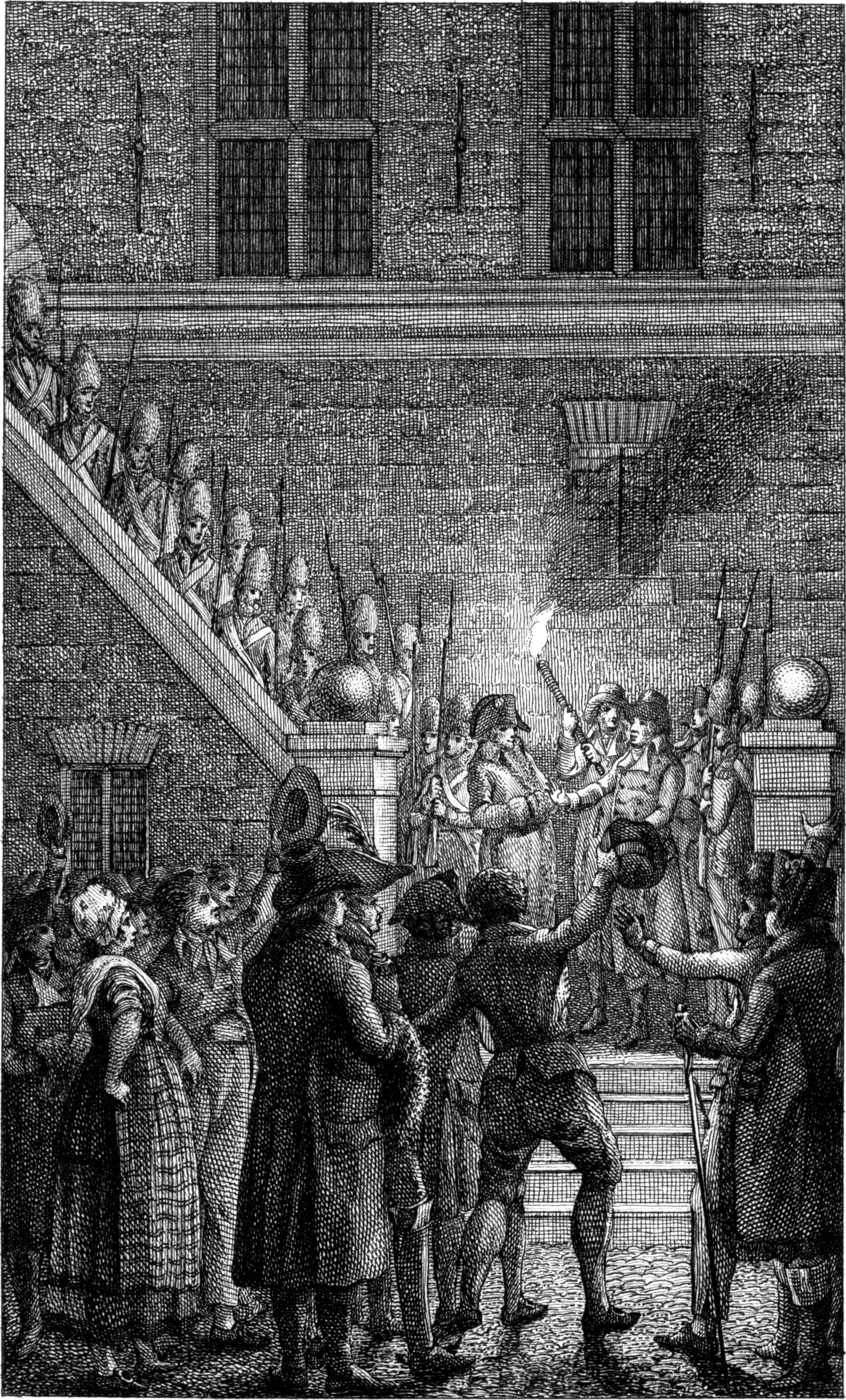 The beginning of the revolution in Amsterdam, on January 19, 1795. Whilst standing on the steps of the old weighing house at Dam square in Amsterdam, Secretary Pierre van der Aa announces the surrender of the old regime of the mayors, to the Revolutionary Comité, and appoints Cornelis Krayenhoff as military commander of Amsterdam.